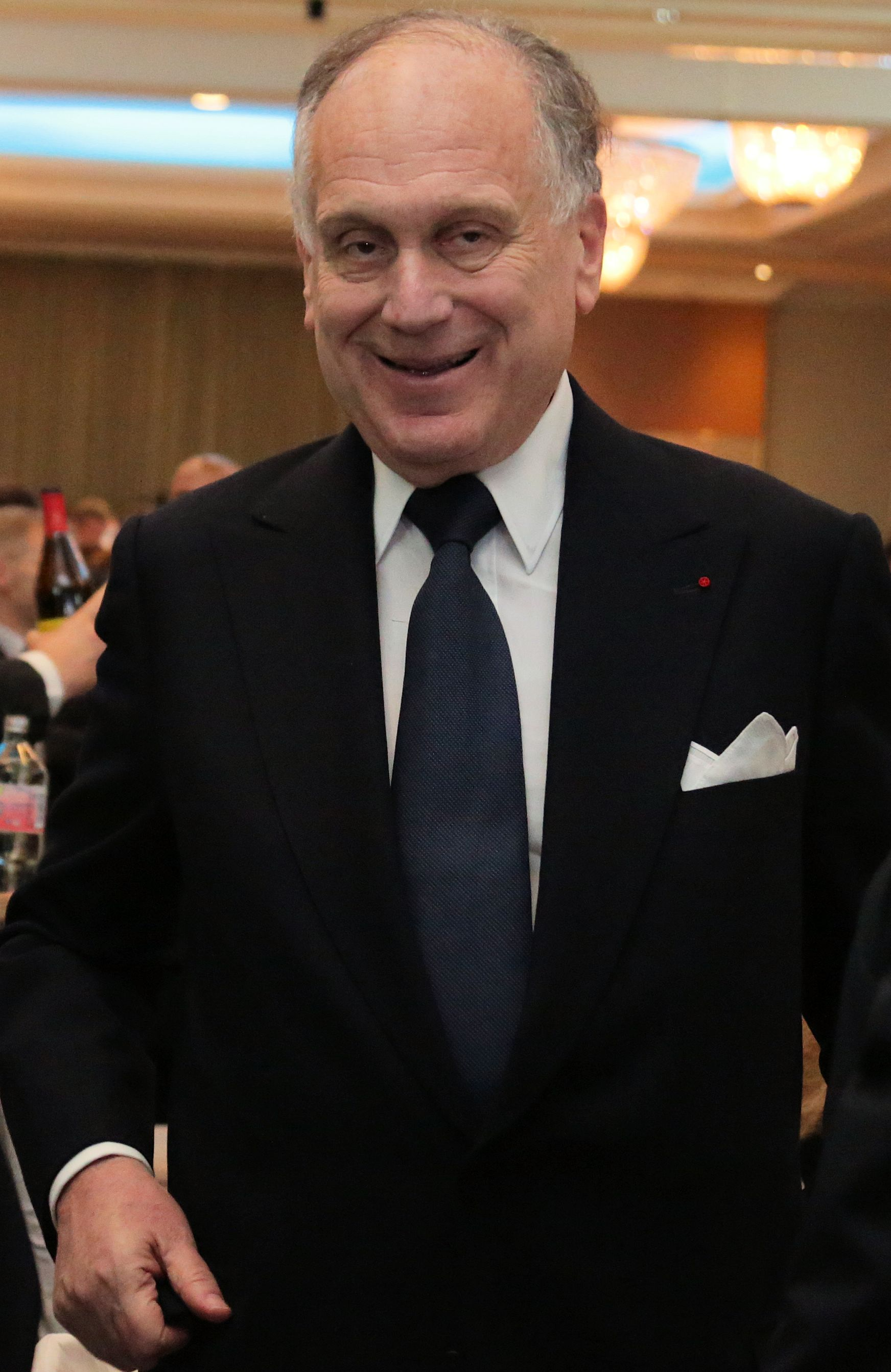 Ronald S. Lauder at the Plenary Assembly of the World Jewish Congress in Budapest, 5 May 2013